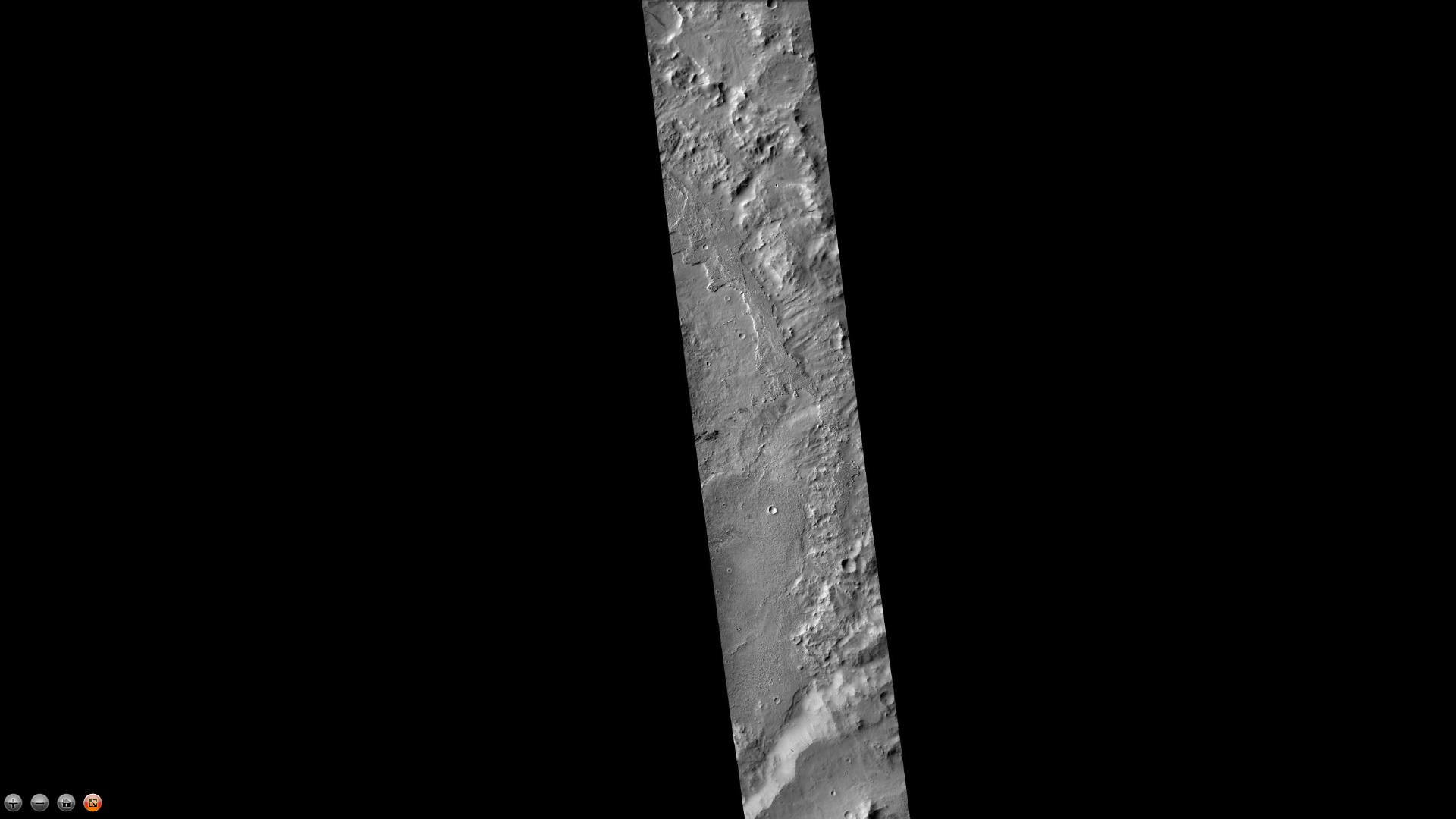 Eastern side of Janssen Crater, as seen by CTX